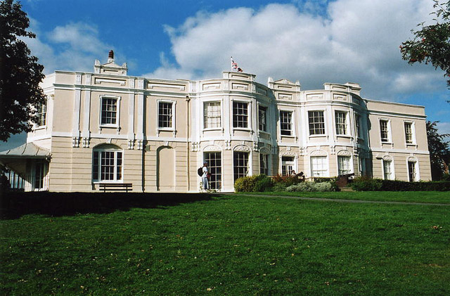 Teignmouth: Bitton House. Now the local council offices, originally the home of the first Viscount Exmouth, Admiral Sir Edward Pellew, a Cornishman. Two cannon from the 1816 siege of Algiers stand sentinel. Pellew worked his way up in the Royal Navy as a frigate captain, later commanding squadrons in the Far East and the Mediterranean. He has been described by one authority as fearless, unorthodox, acquisitive and courageous [Richard Woodman, The Sea Warriors, Constable 2001]